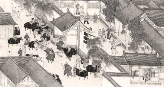 Hujia Shiba Pai 胡笳十八拍 ("Eighteen Songs of a Nomad Flute" - abduction)